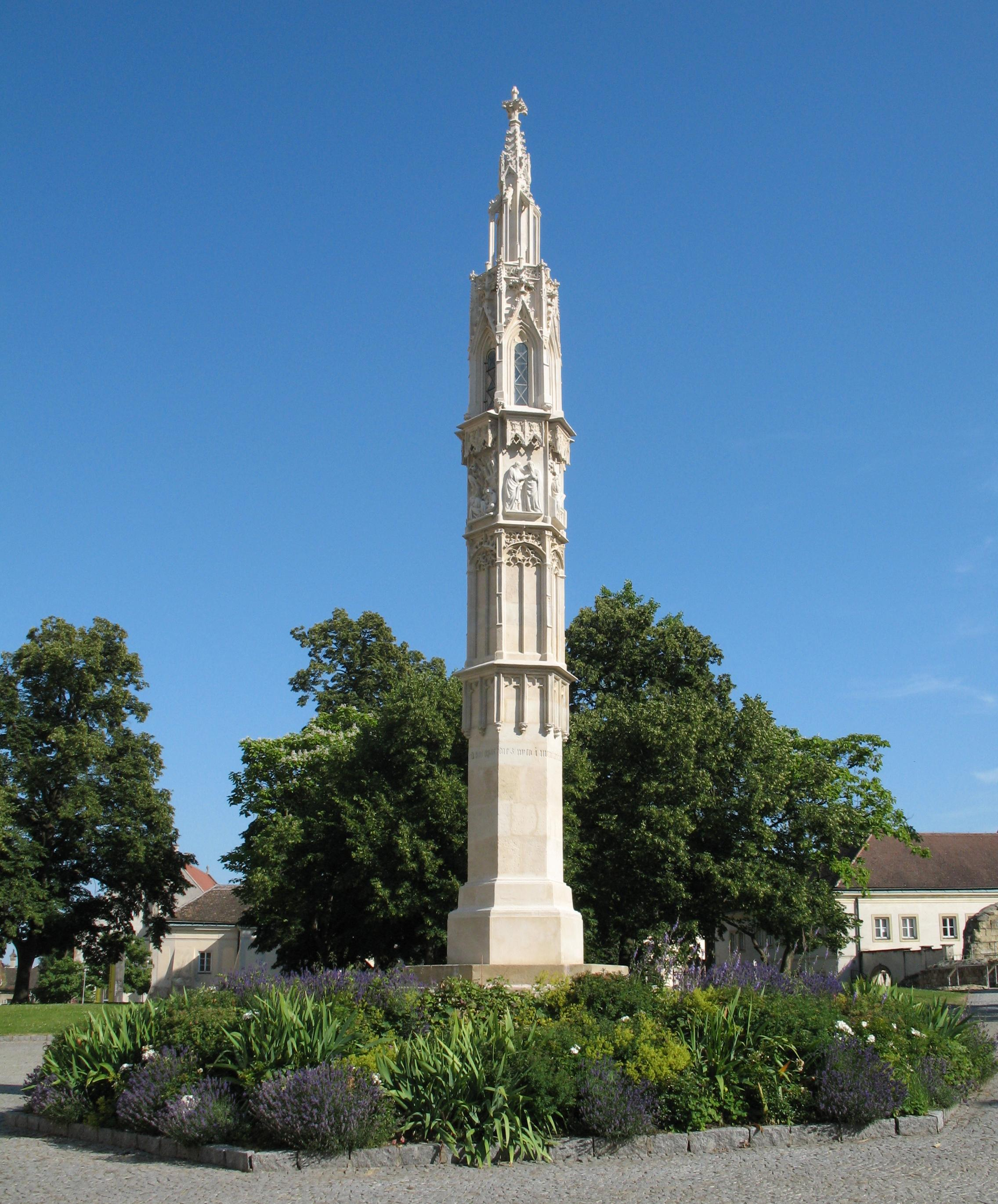 Column donated by Michel Tutz (Tutzsäule) in Klosterneuburg, Austria